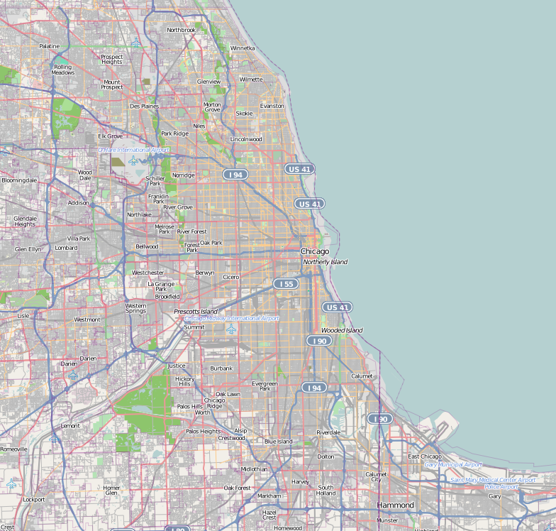 This map of Chicago was created from OpenStreetMap project data, collected by the community. This map may be incomplete, and may contain errors. Don't rely solely on it for navigation. Border coordinates42.163-88.11←↕→-87.25241.553